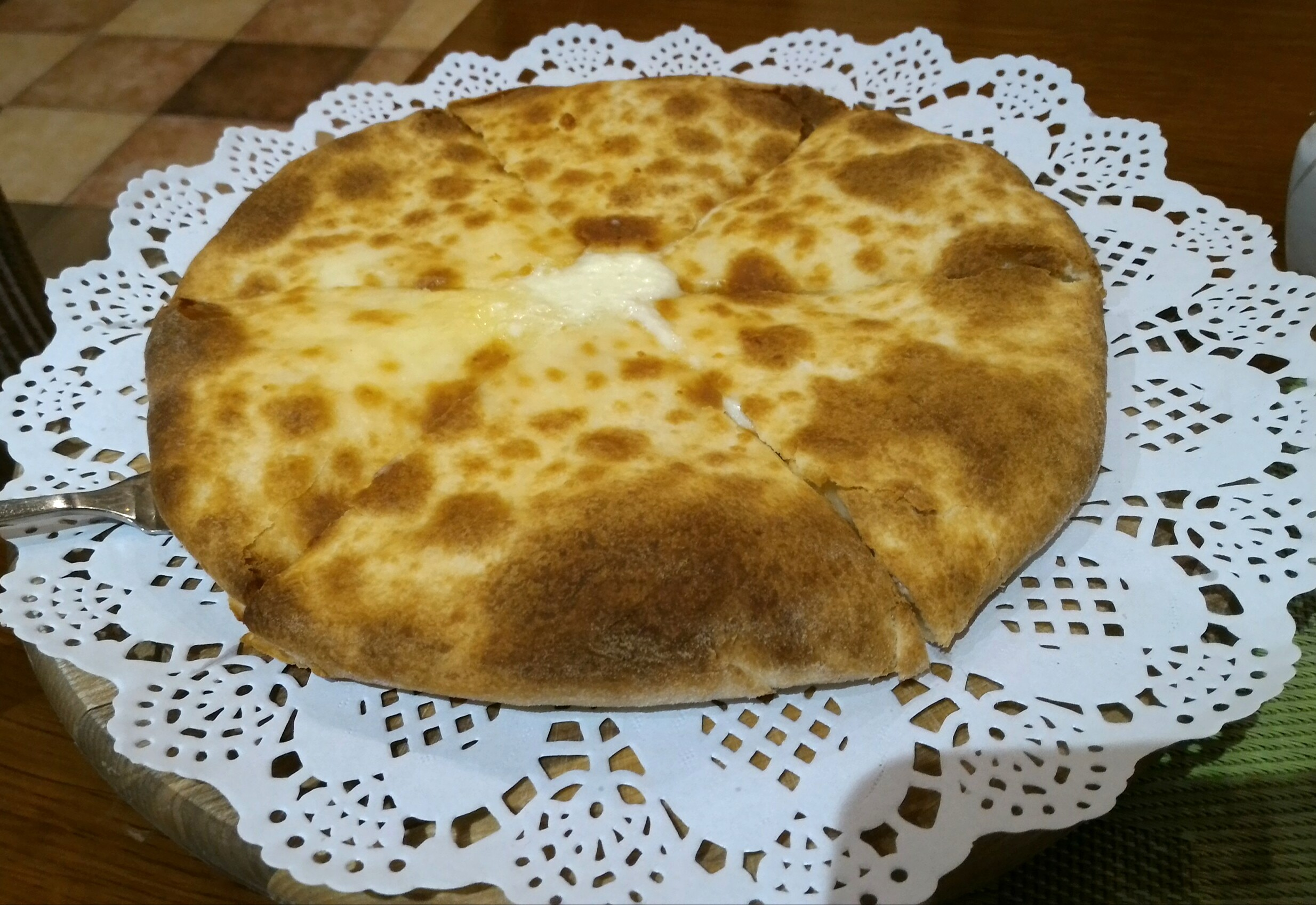 This is Georgian Imeretinsyi Khachapuri